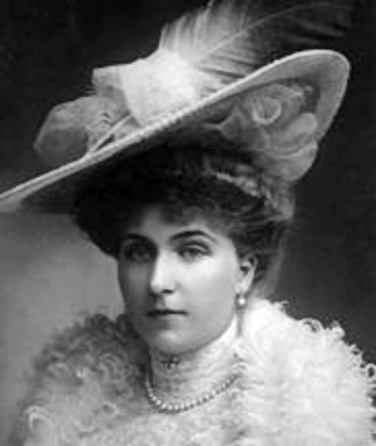 Victoria Eugenie of Battenberg (1887-1969)